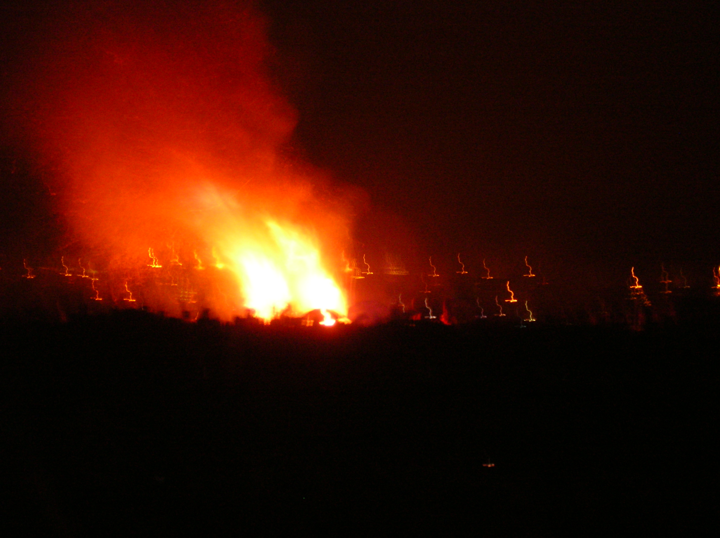 The bonfire lit to welcome Beltane morning. Edinburgh 2008.